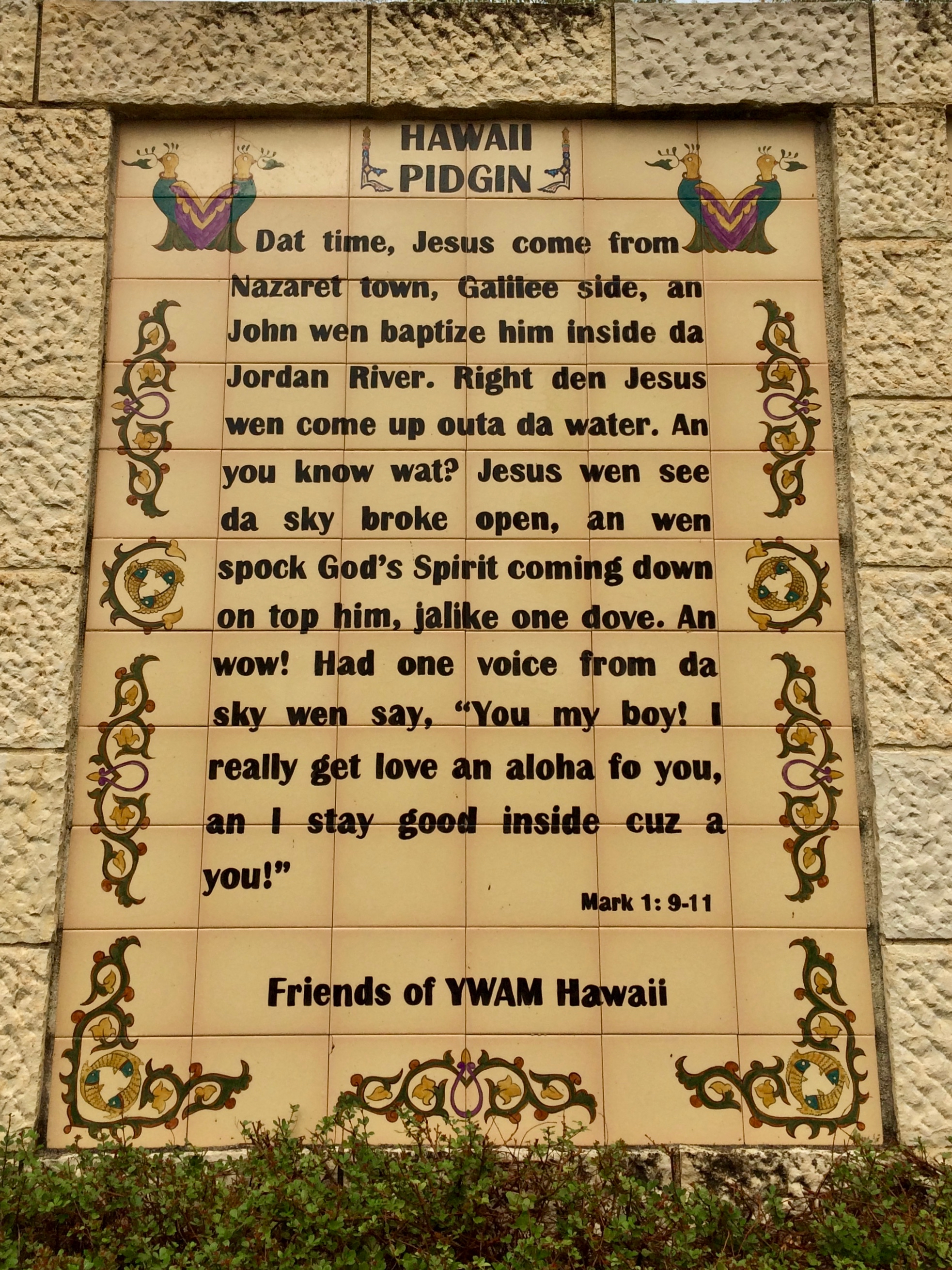 Gospel of Mark 1:9-11 written in Hawaii Pidgen. Painted ceramic tile at Yardenit, a baptismal site on the Jordan River in Israel.